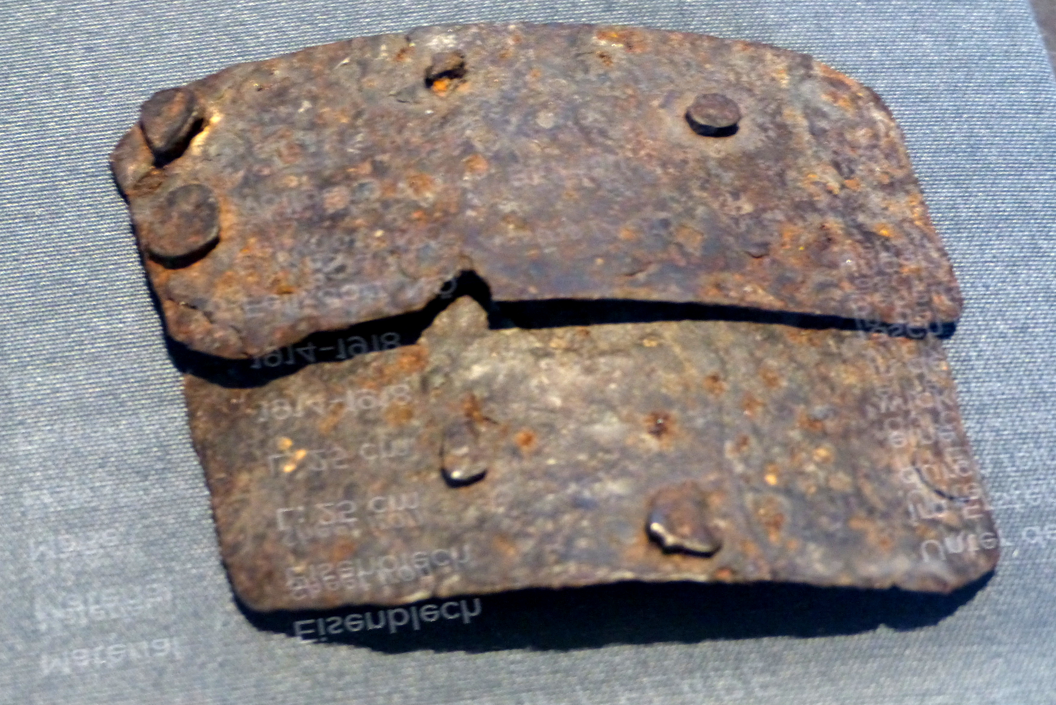 Asparn aAsparn an der Zaya ( Lower Austria ). Museum of Prehistory: Fragment of an Ancient Roman scale armour ( 2nd -3rd century AD ) from Zwentendorf ( Niederösterreich )